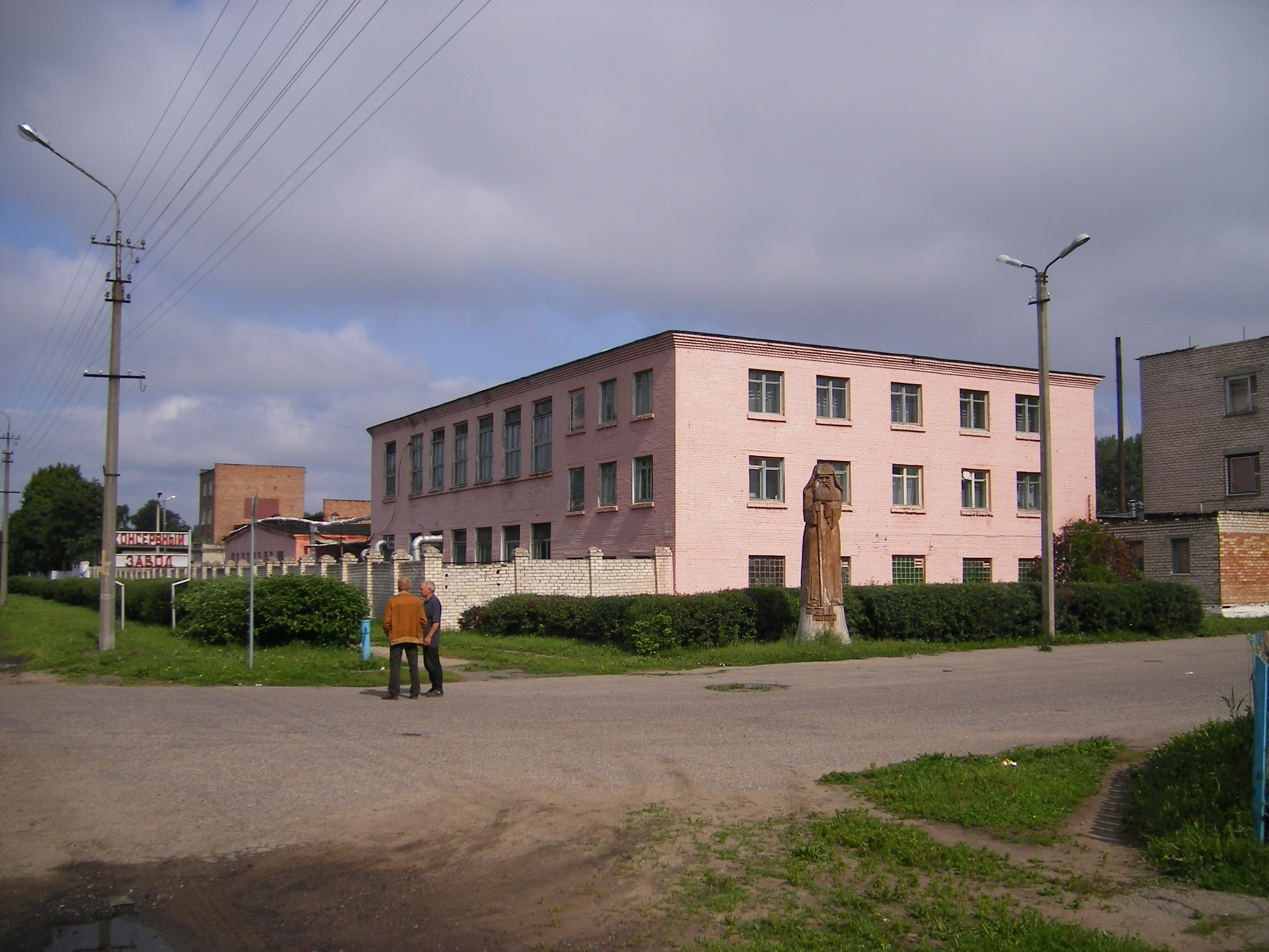 Conserve factory in Polatsk (Belarus)